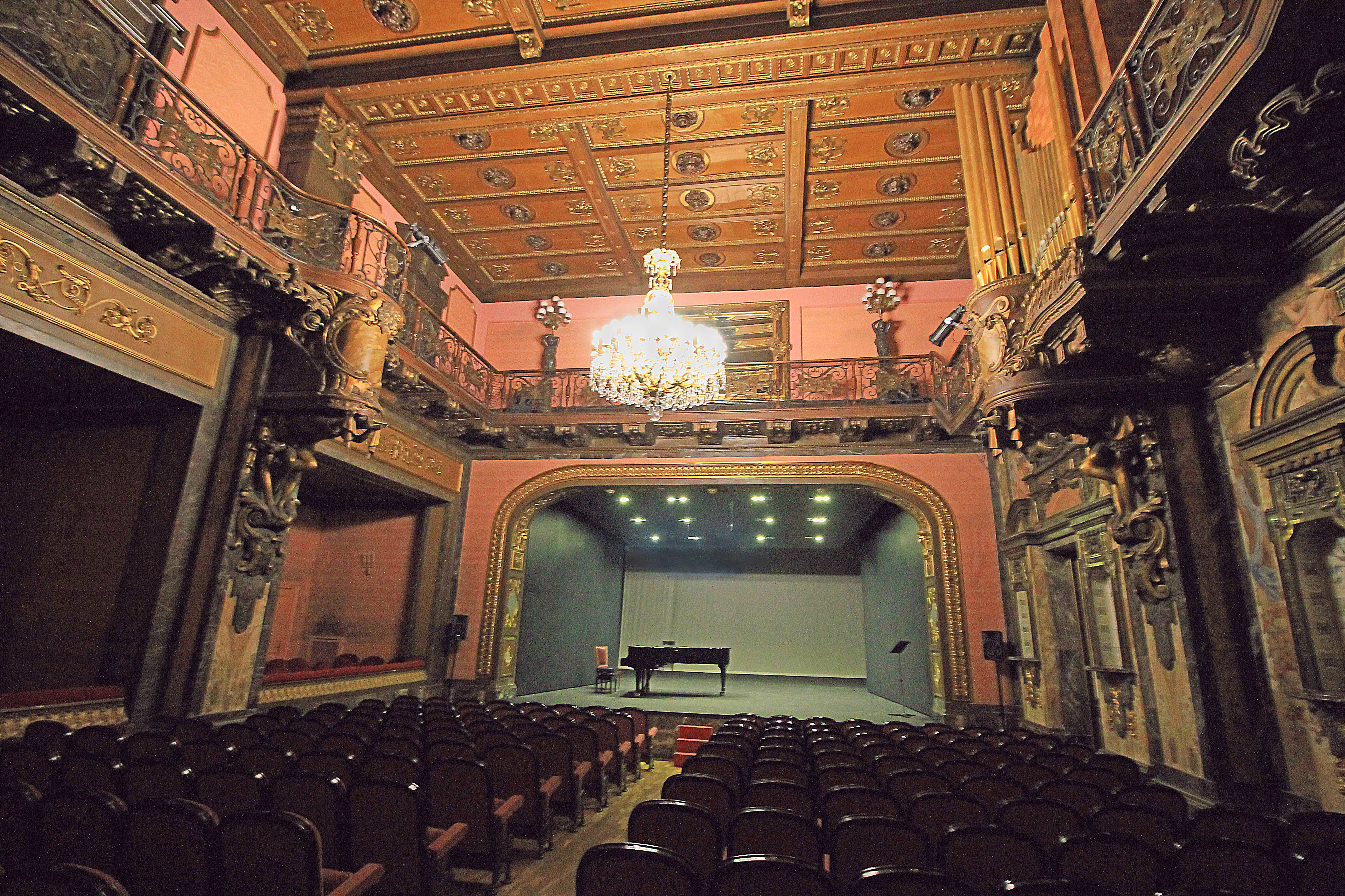 Former ball room of the Bauer Palace (a former mansion) in Madrid (Spain). Designed by Arturo Mélida towards 1870 and transformed into a theatre by José Manuel González Valcárcel in the 1970's.